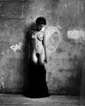 La Pass Murraille - No:1